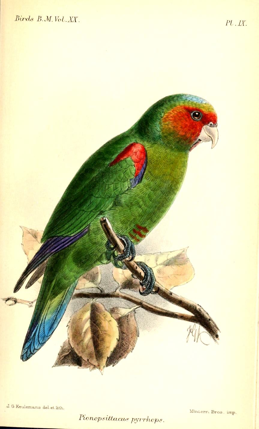 Pionopsittacus pyrrhops = Hapalopsittaca pyrrhops, Red-faced Parrot